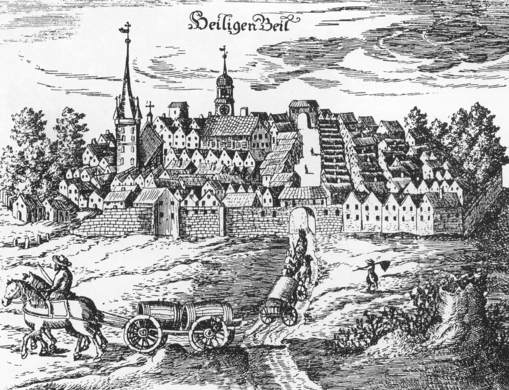 A view of Heiligenbeil, Duchy of Prussia (17 century)